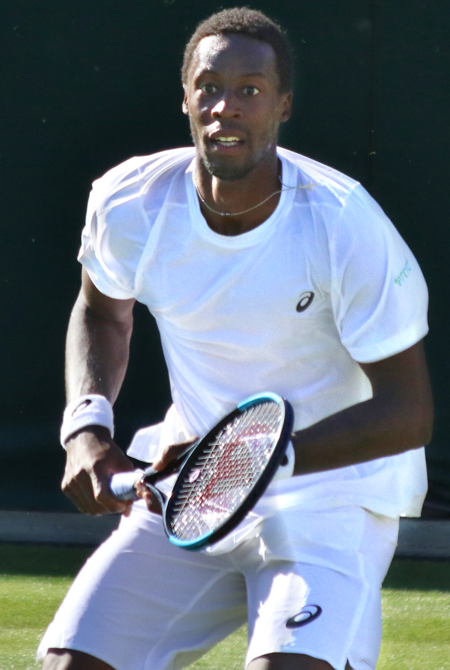 Monfils WM18 (24)